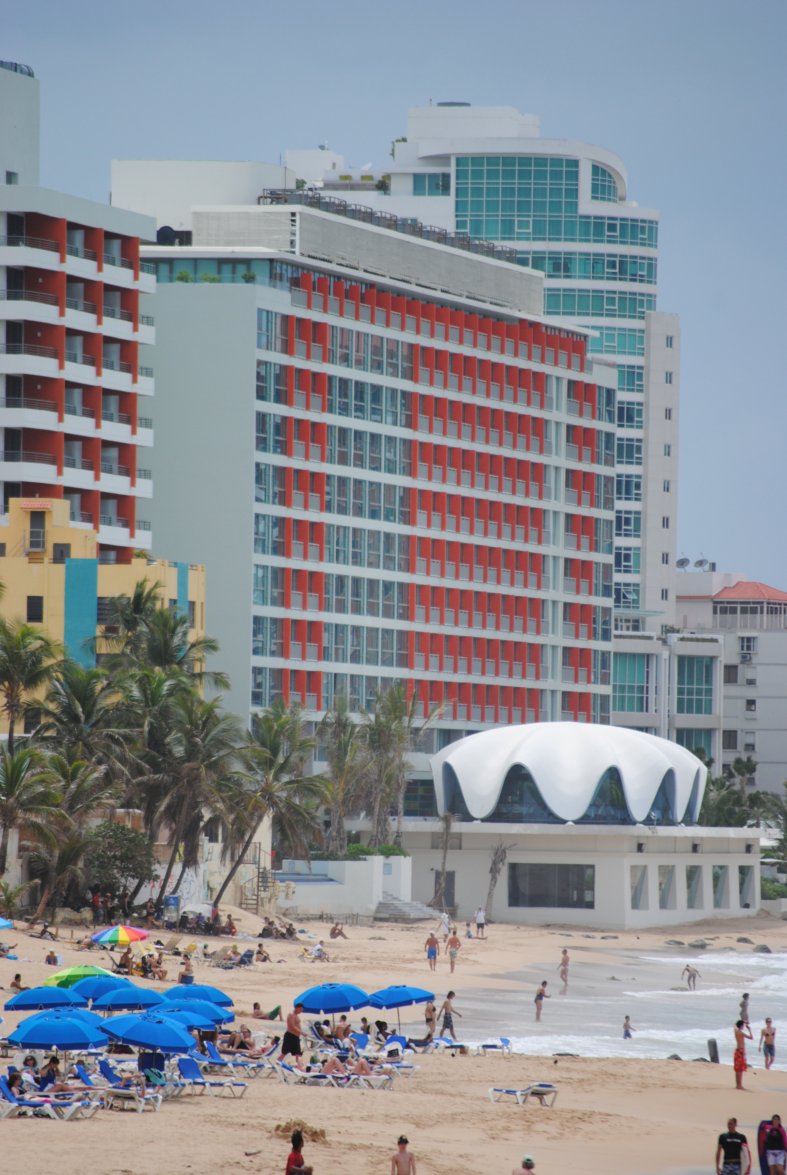 La Concha, a Renaissance Resort in San Juan, with seashell structure by Mario Salvadori